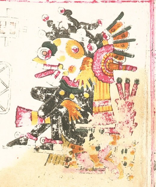 A drawing of Mictlantecuhtli , one of the deities described in the Codex Borgia